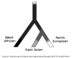 Skin pigmentation in Northern Europeans, West Africans and East Asians through subsequent years of evolution.